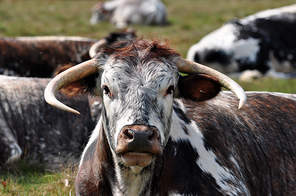 longhorn cattle at clumber park